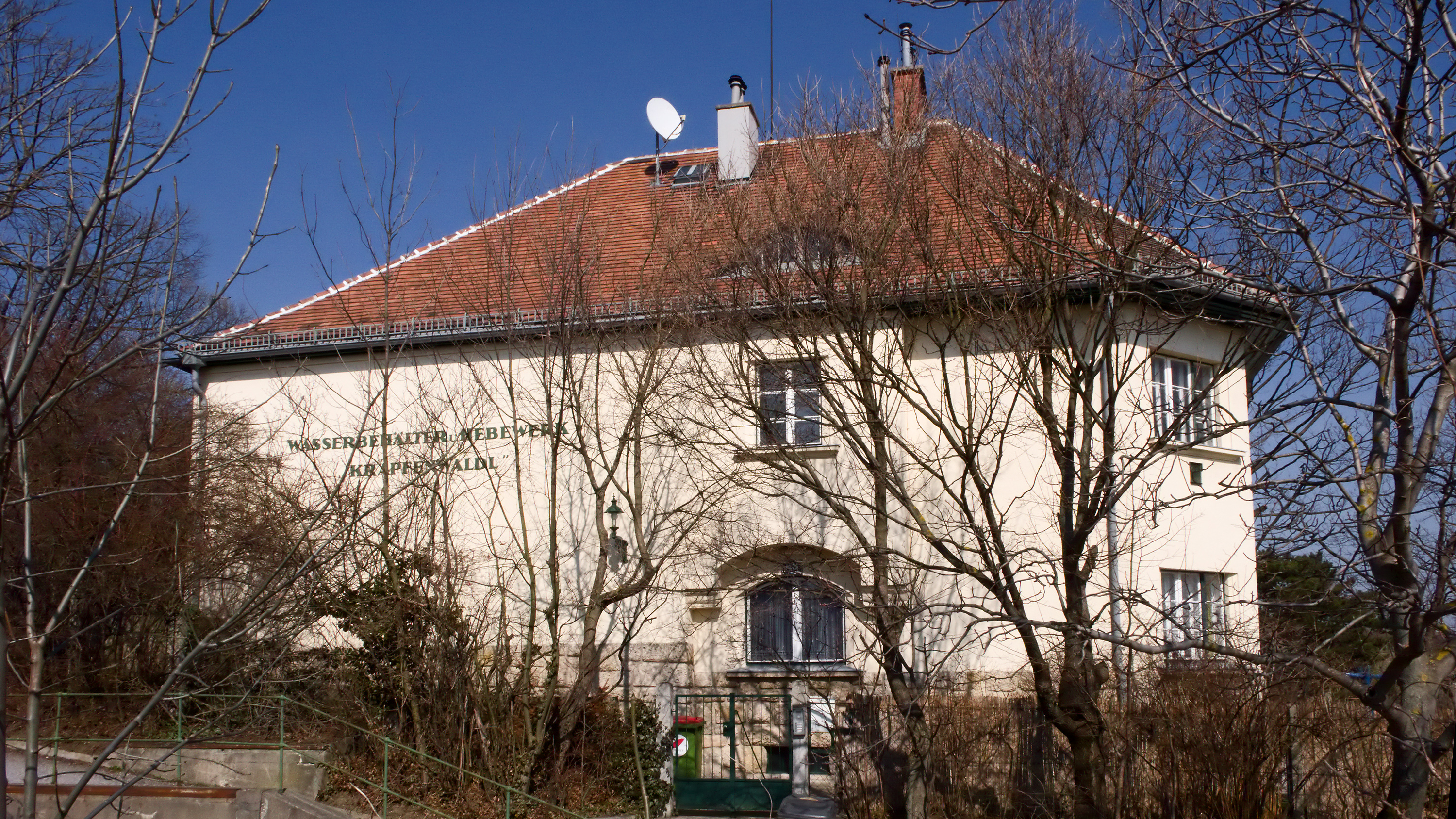 Wasserbehälter Krapfenwaldl in Vienna Döbling